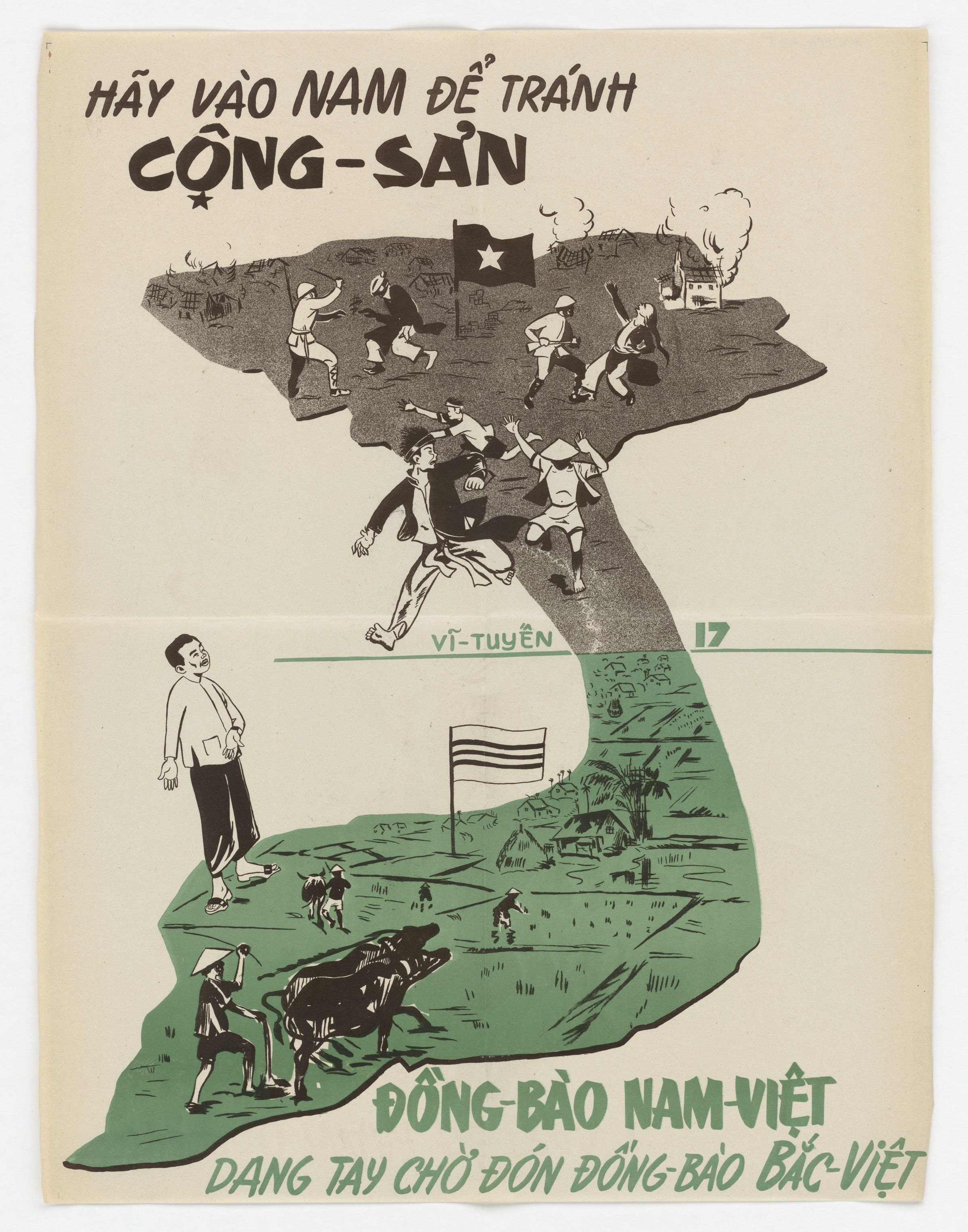 Propaganda poster exhorting Northern Vietnamese to move South during Operation Passage to Freedom. The text reads "Move to the South to avoid communism" and "The southern compatriots welcome their northern compatriots with open arms."